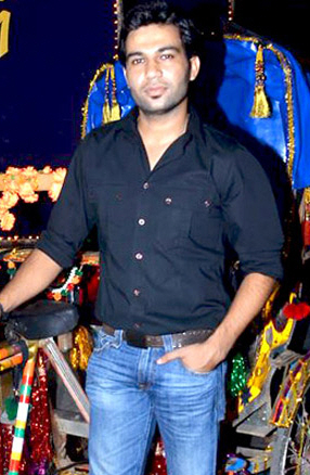 Photo Of Ali Abbas Zafar From The Audio release of 'Mere Brother Ki Dulhan